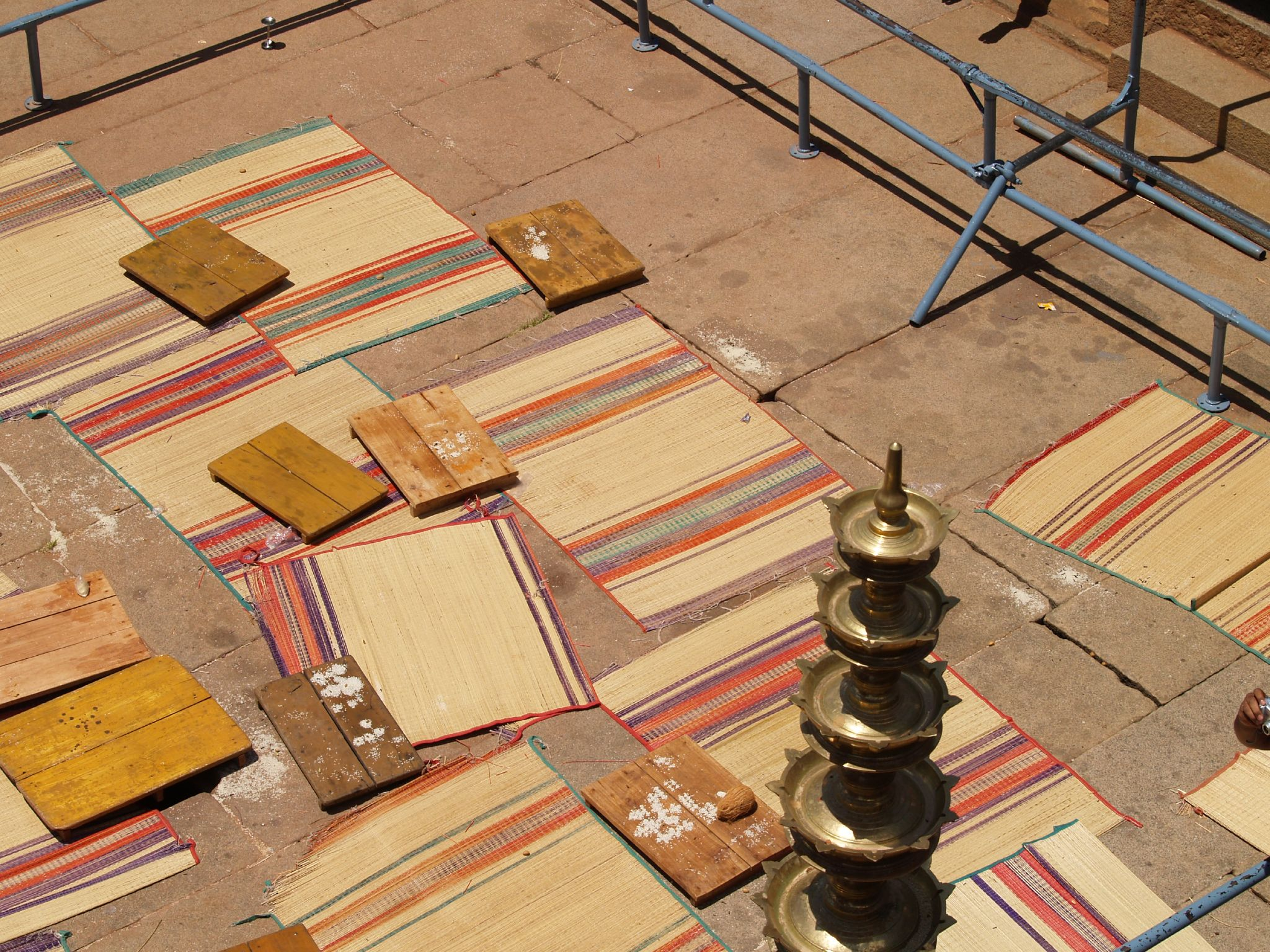 Sitting mats and low wooden stools for devotees at the Jain temple of Shravanabelagola, Karnataka, India.